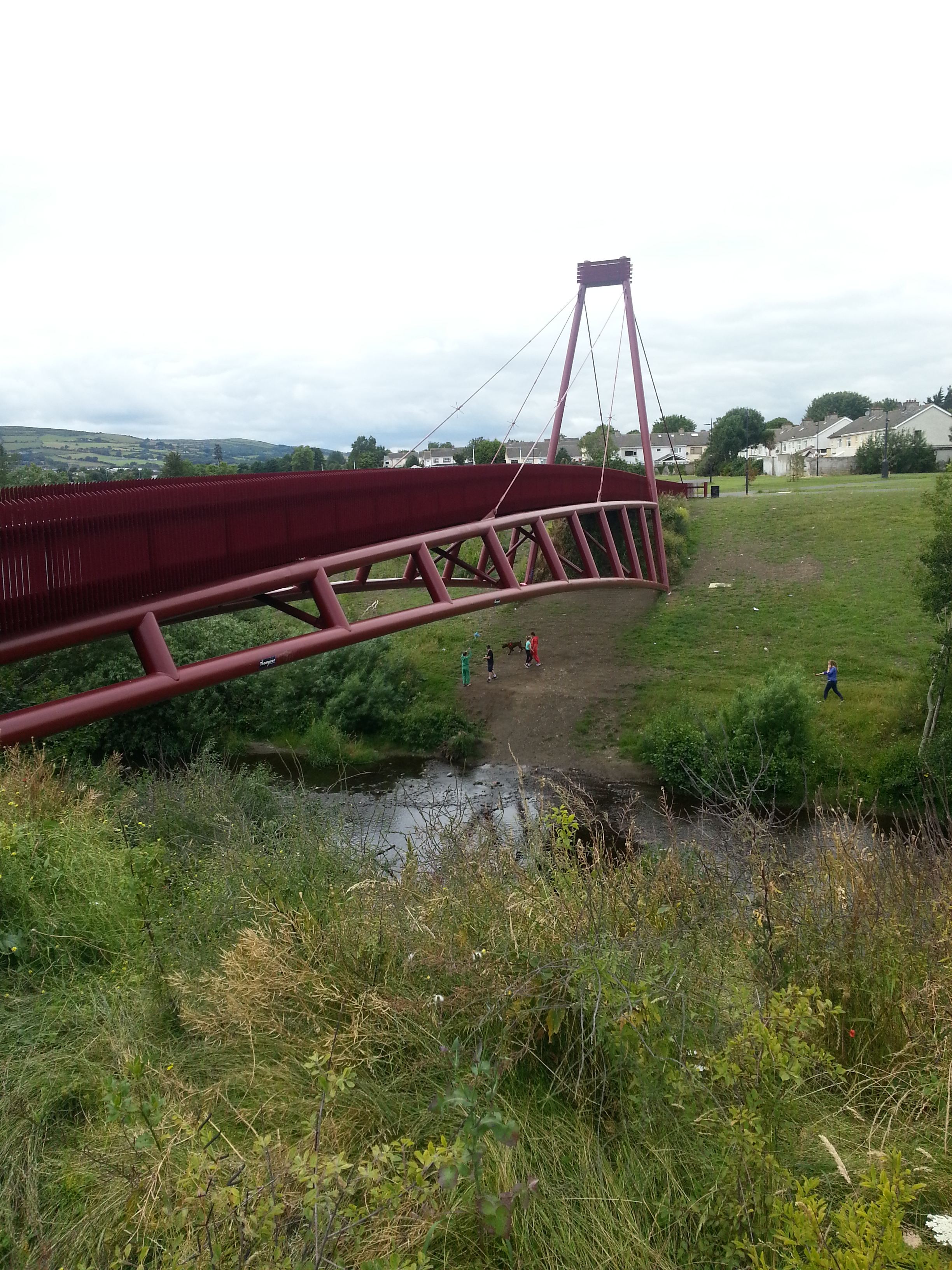 Pedestrian / Cycle Bridge across River Dodder near Firhouse, Dublin, Ireland